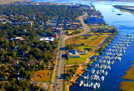 The low-resolution photograph is an aerial view of the Old Town National Historic District in Brunswick, Georgia. The principal thoroughfare in view is Newcastle Sreet, with Mary Ross Waterfront Park and its marina on the right.